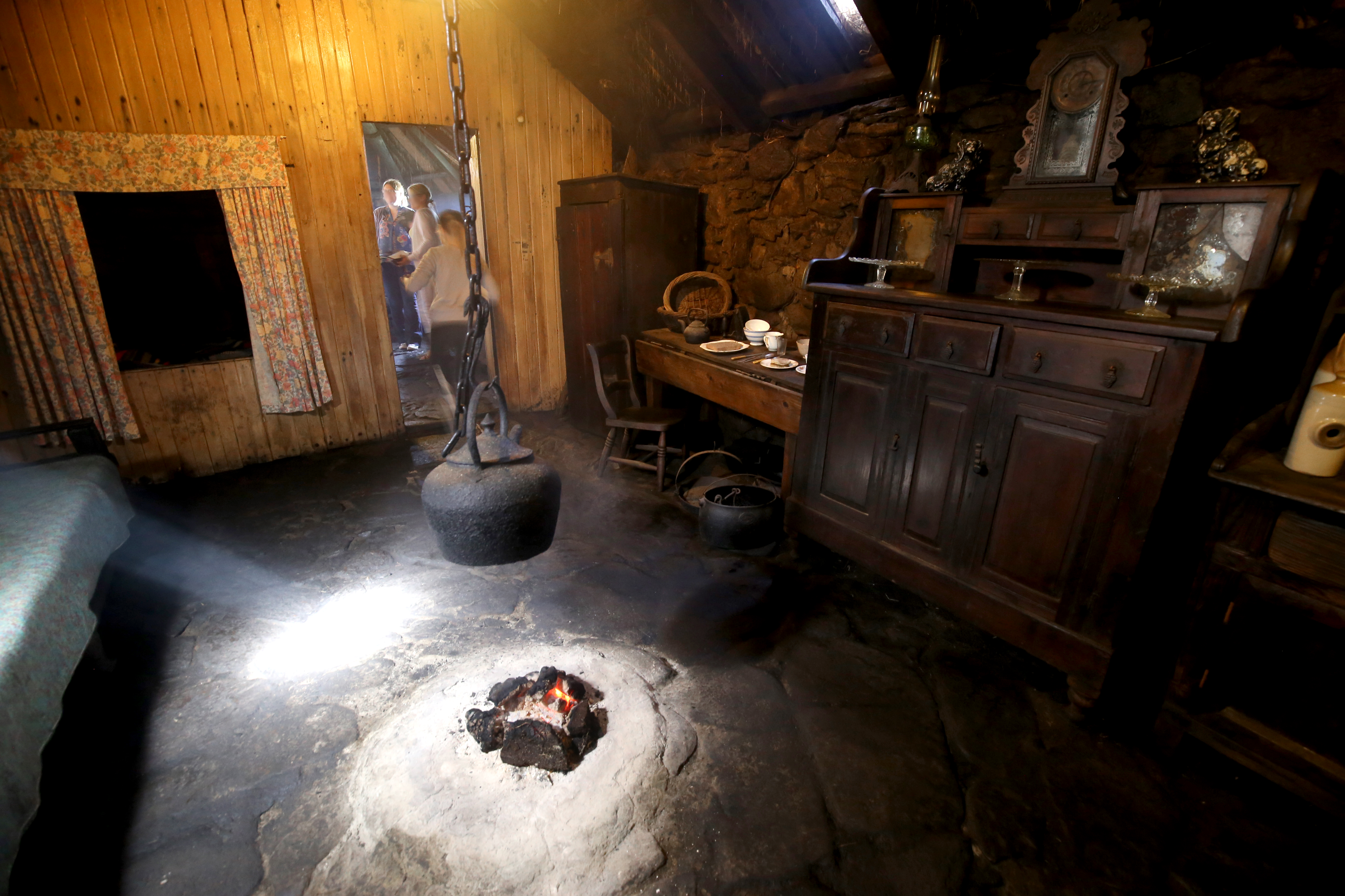 The Blackhouse, Arnol, Interior living room showing peat fire and hanging pot.